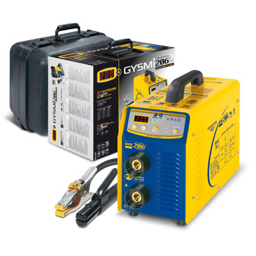 This is a 200A MMA Arc Welder